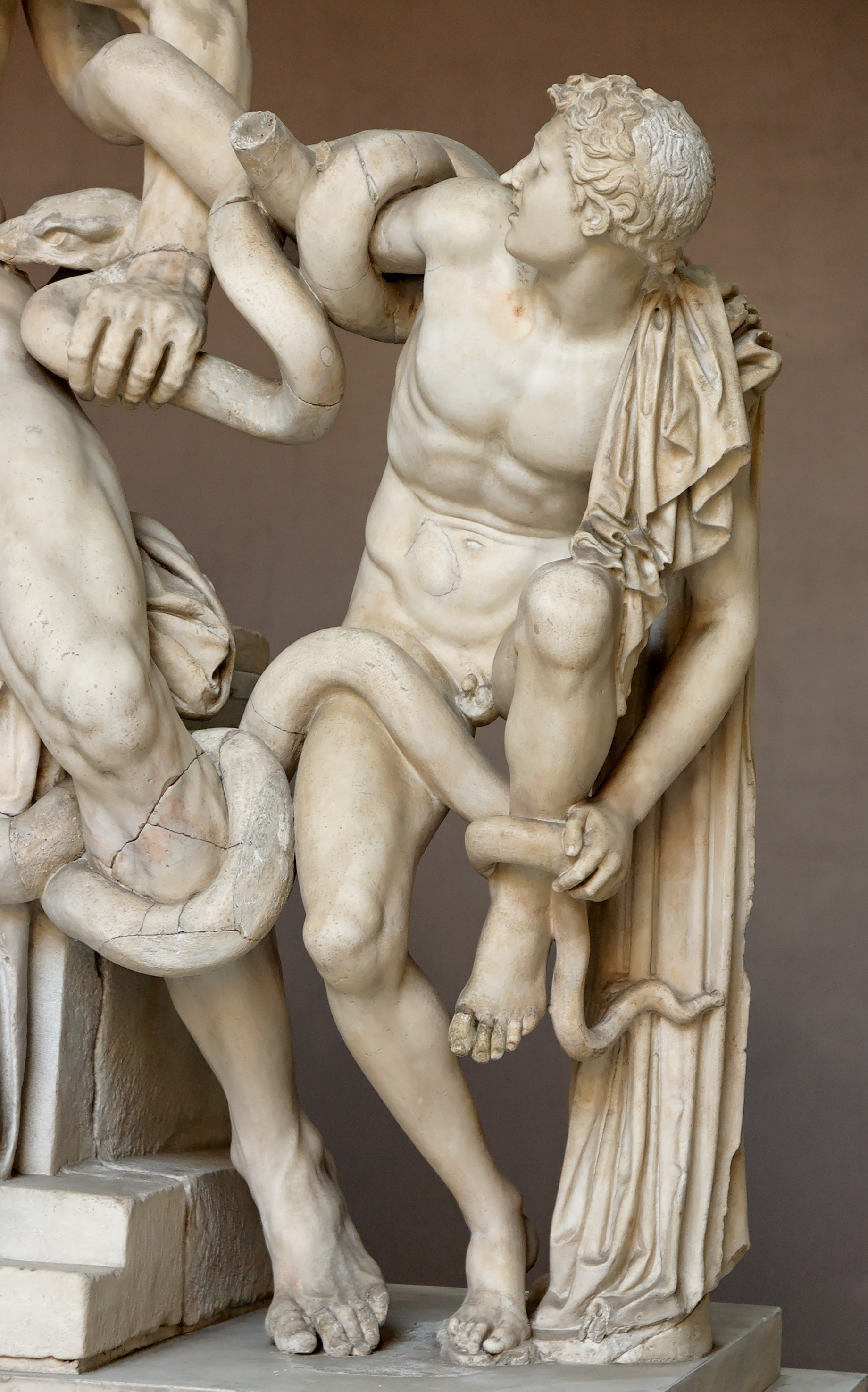 Laocoön and his sons, also known as the Laocoön Group. Marble, copy after an Hellenistic original from ca. 200 BC.